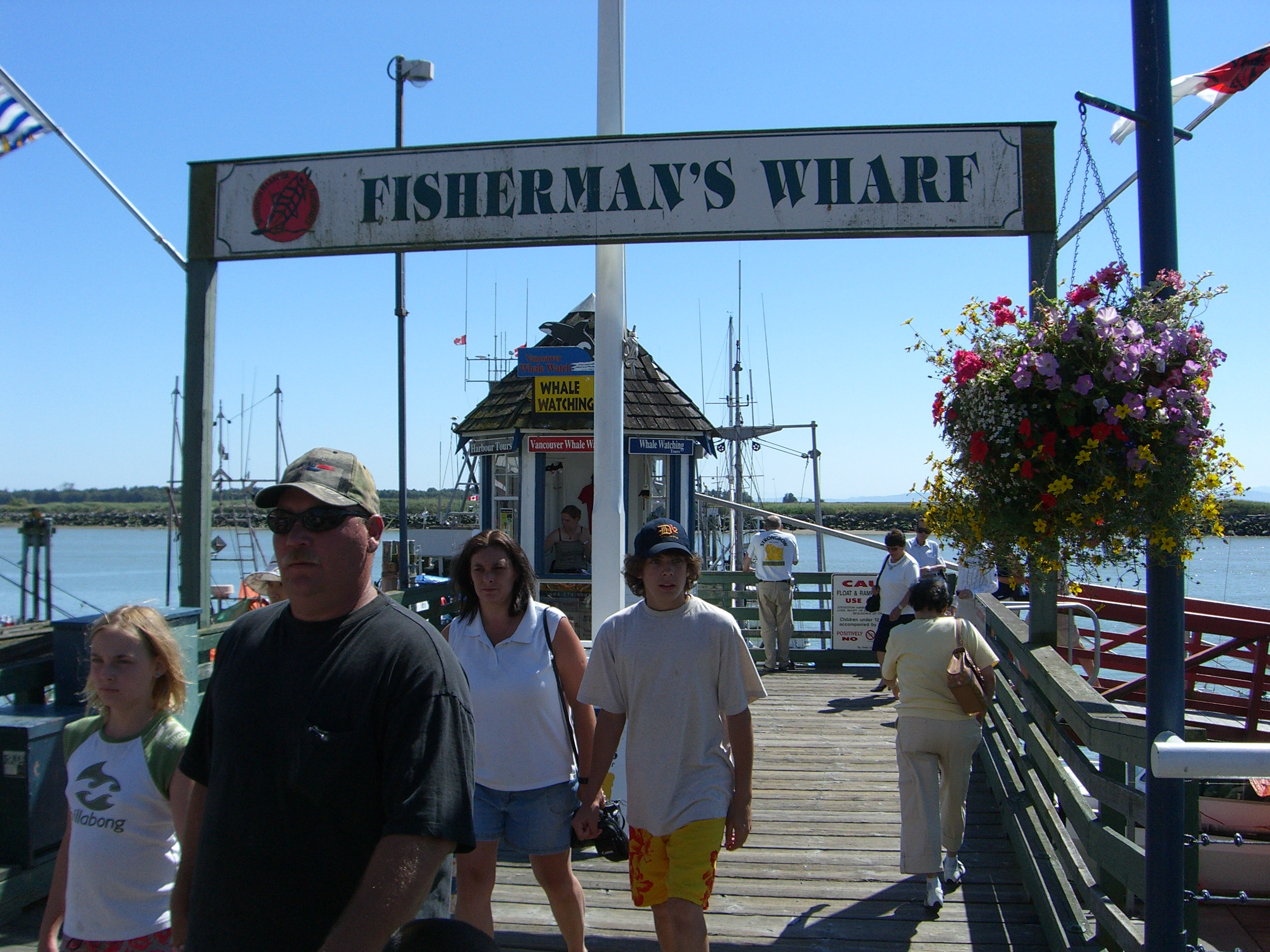 A picture of Steveston Fisherman Wharf taken by me.